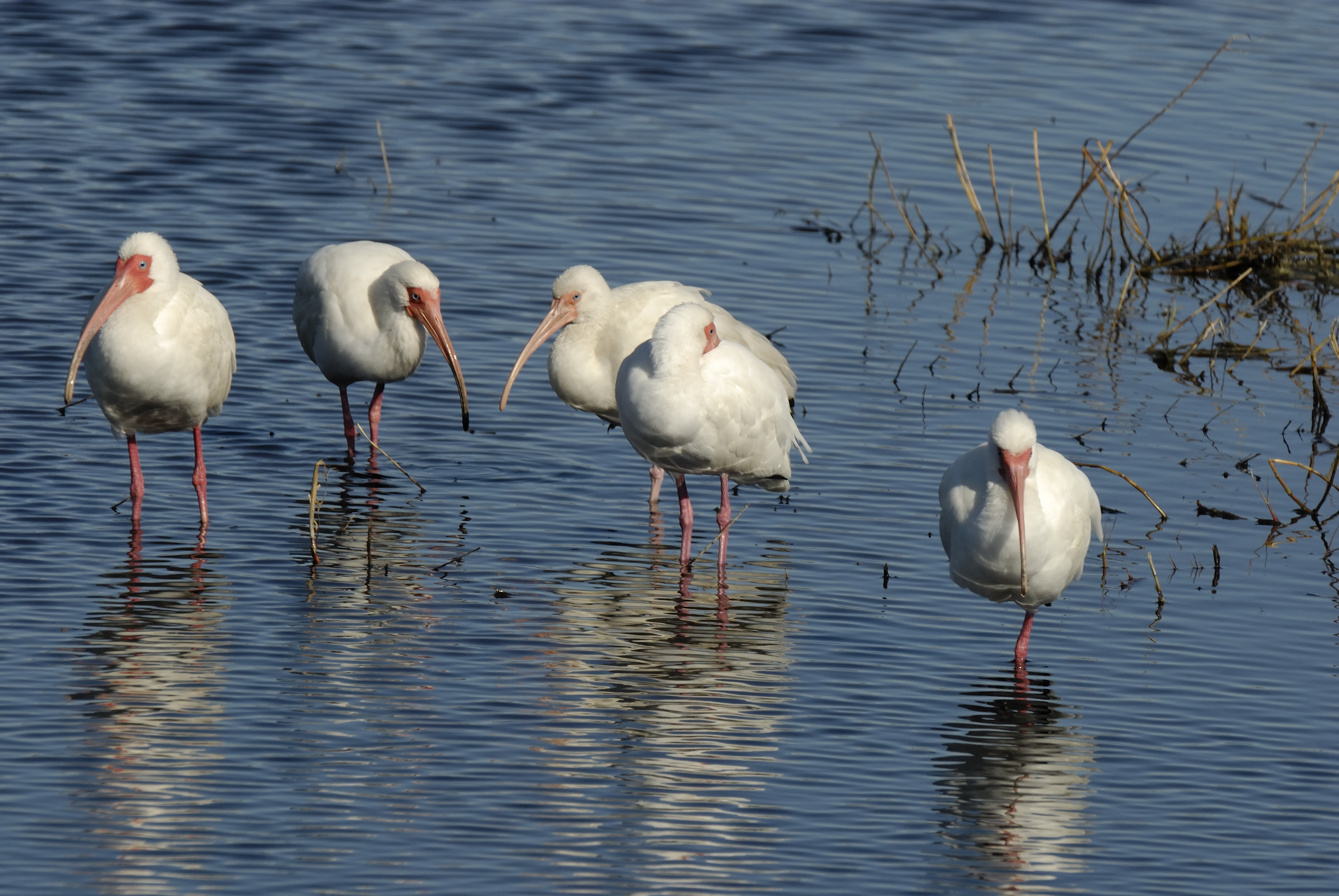 American White Ibises near Black Point Wildlife Drive, Merritt Island National Wildlife Refuge, Merritt Island on the Atlantic coast of Florida, USA.